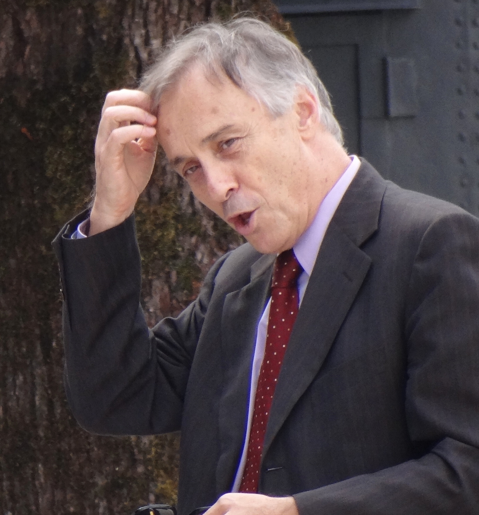 Men Chatting in Street - Cetinje - Montenegro, Miodrag Lekić cropped.